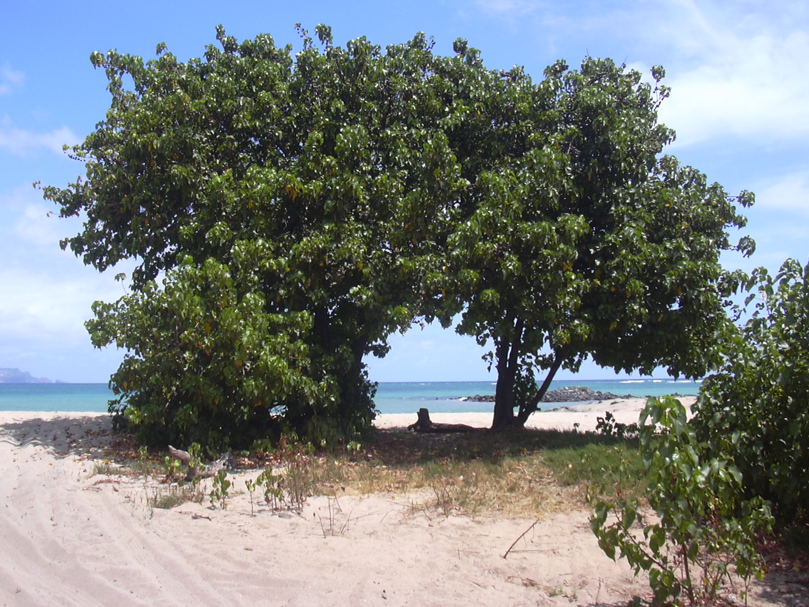 Thespesia populnea (habit). Location: Maui, Kanaha Beach